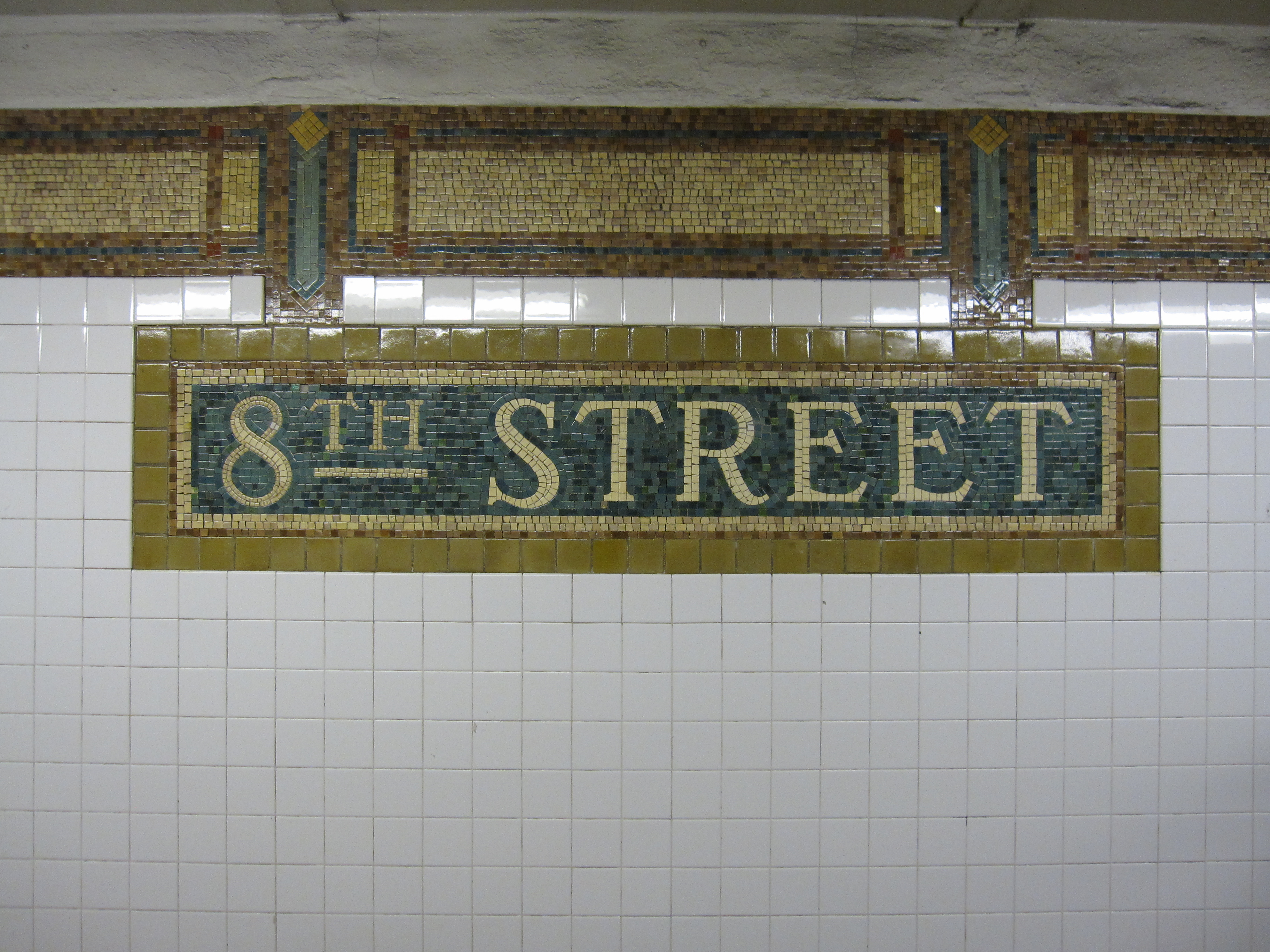 8th Street – NYU (BMT Broadway Line)